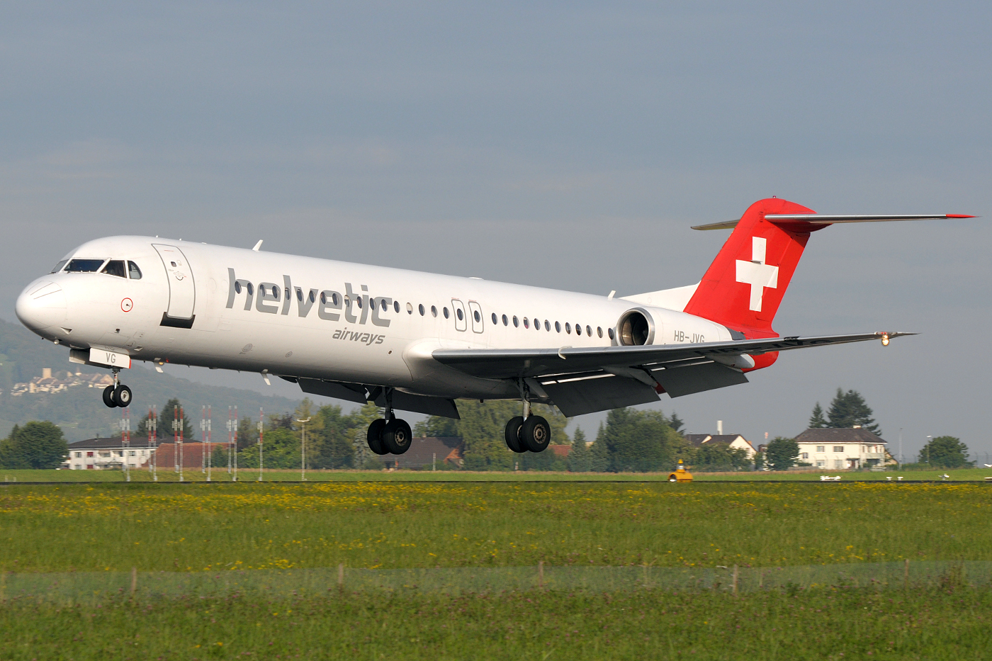 Helvetic Airways Fokker 100 landing in Zurich-Kloten airport